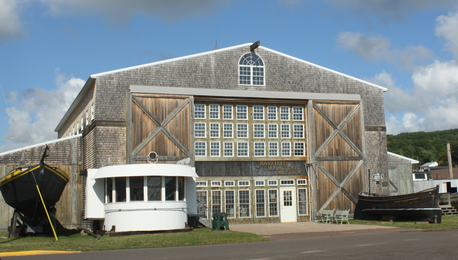 The Bayfield Maritime Museum in Bayfield, Wisconsin.